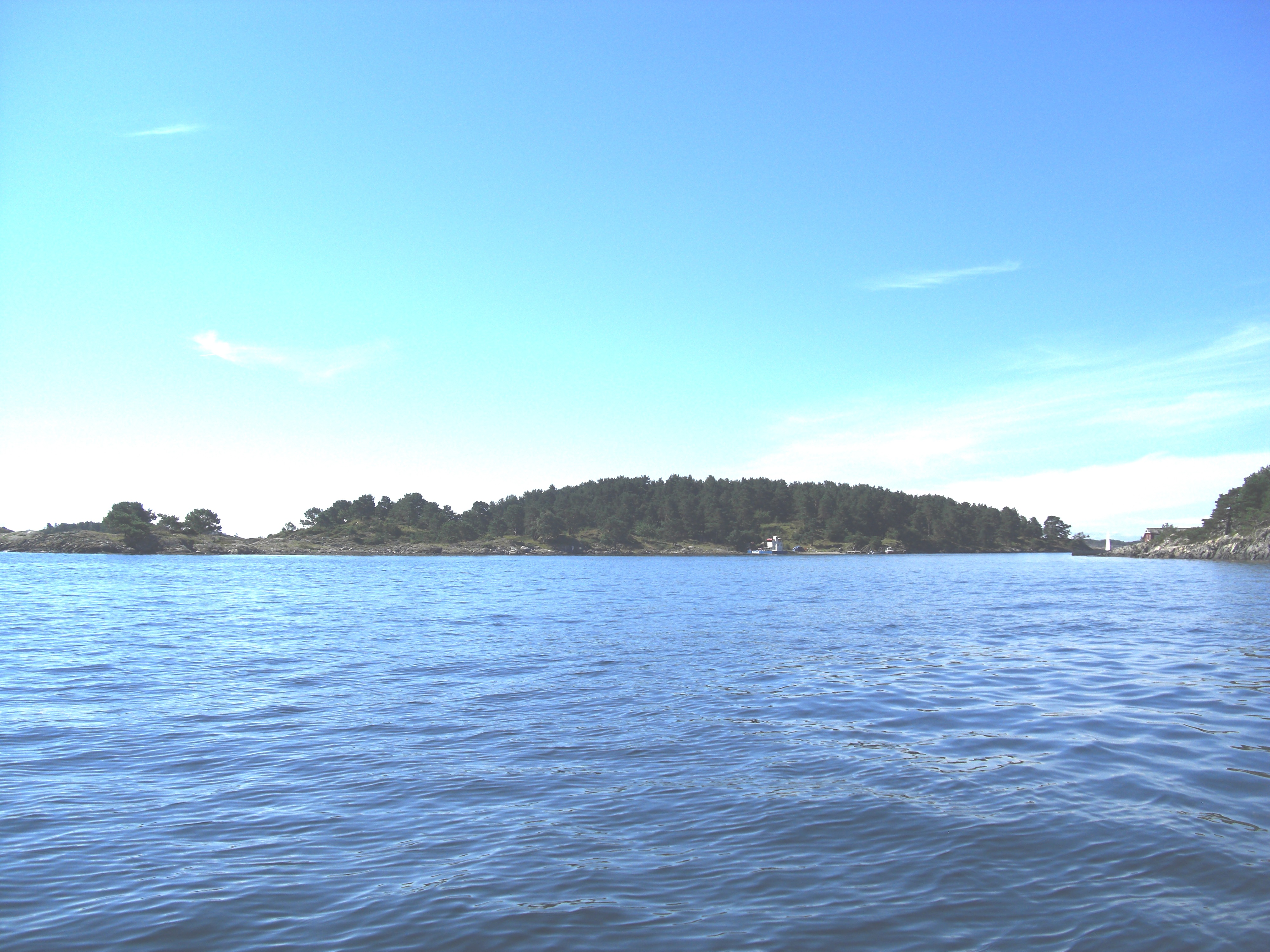 Herøya, Grimstad